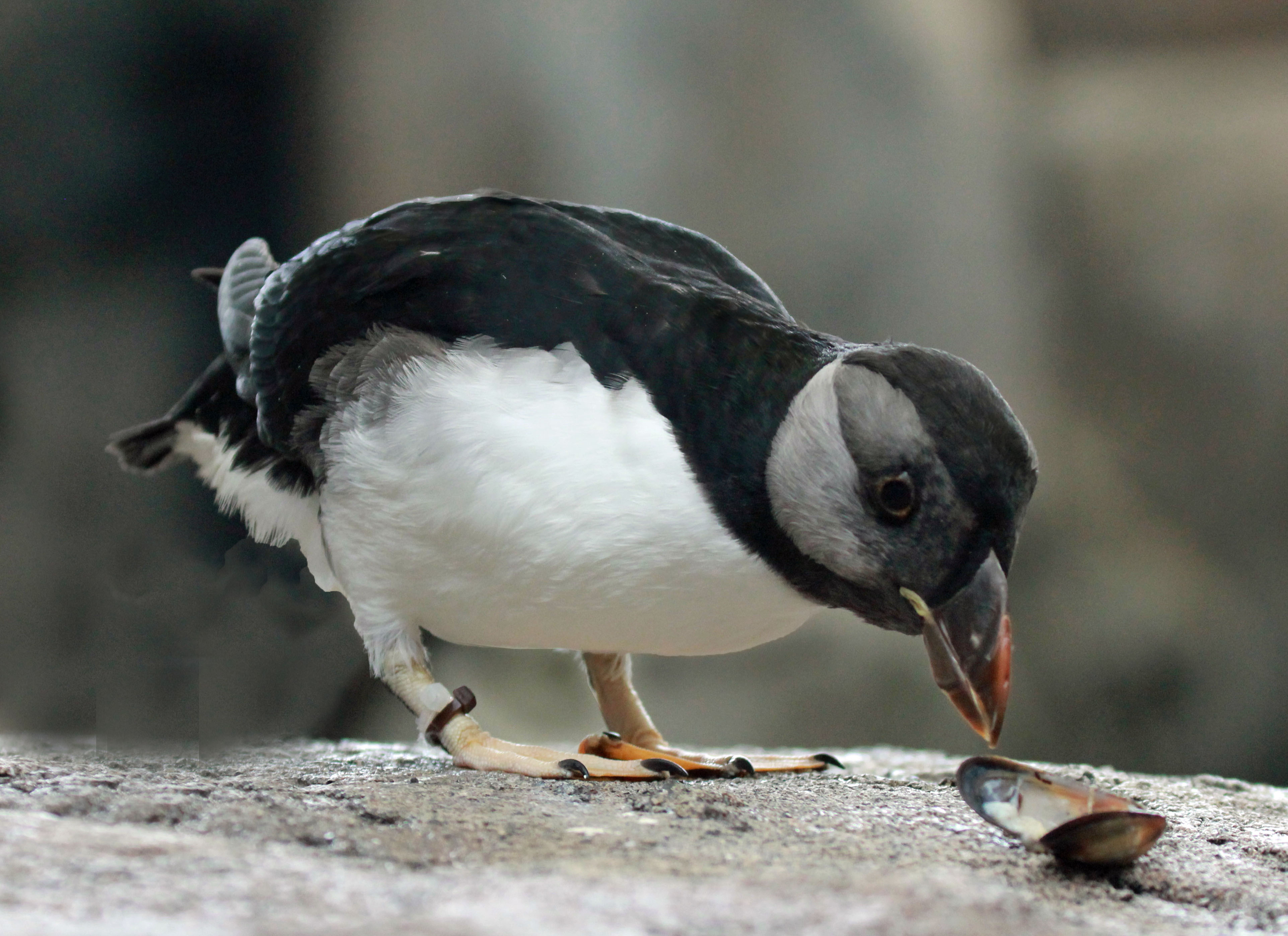 Juvenile Horned Puffin (Fratercula corniculata) - Alaska SeaLife Center in Seward, Alaska